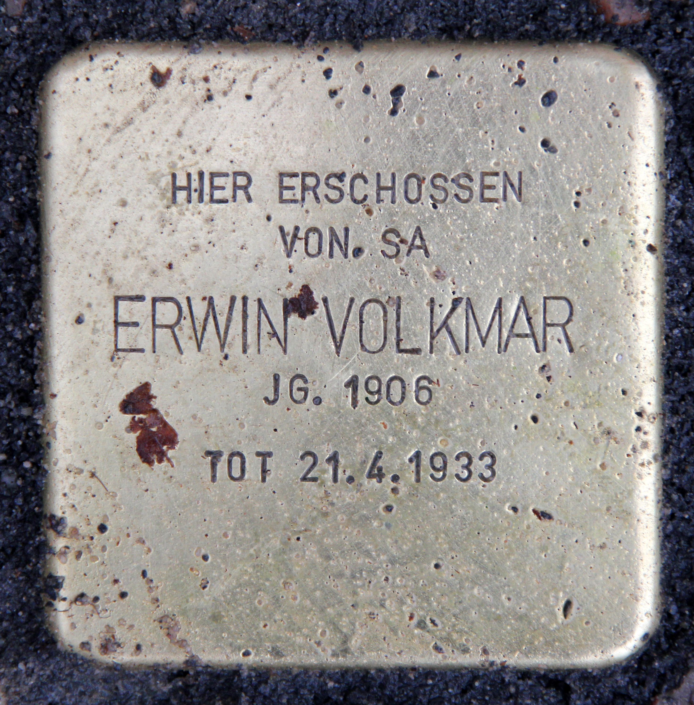 "Stolperstein" (stumbling block), Erwin Volkmar, Karl-Marx-Straße 198, Berlin-Neukölln, Germany